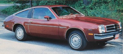 1978 Chevrolet Monza Coupe